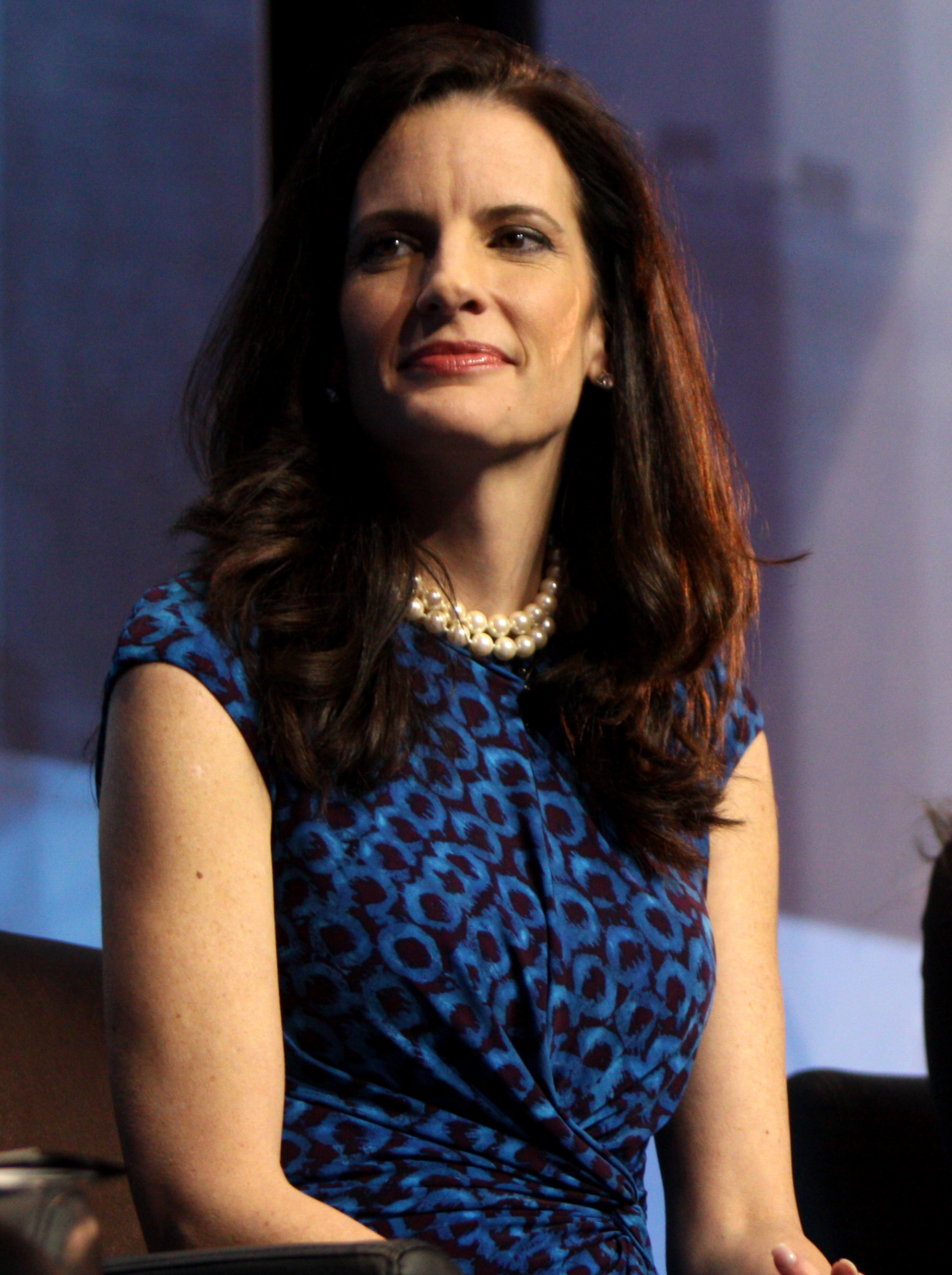 Kate Obenshain speaking at the 2013 CPAC in Washington, D.C.